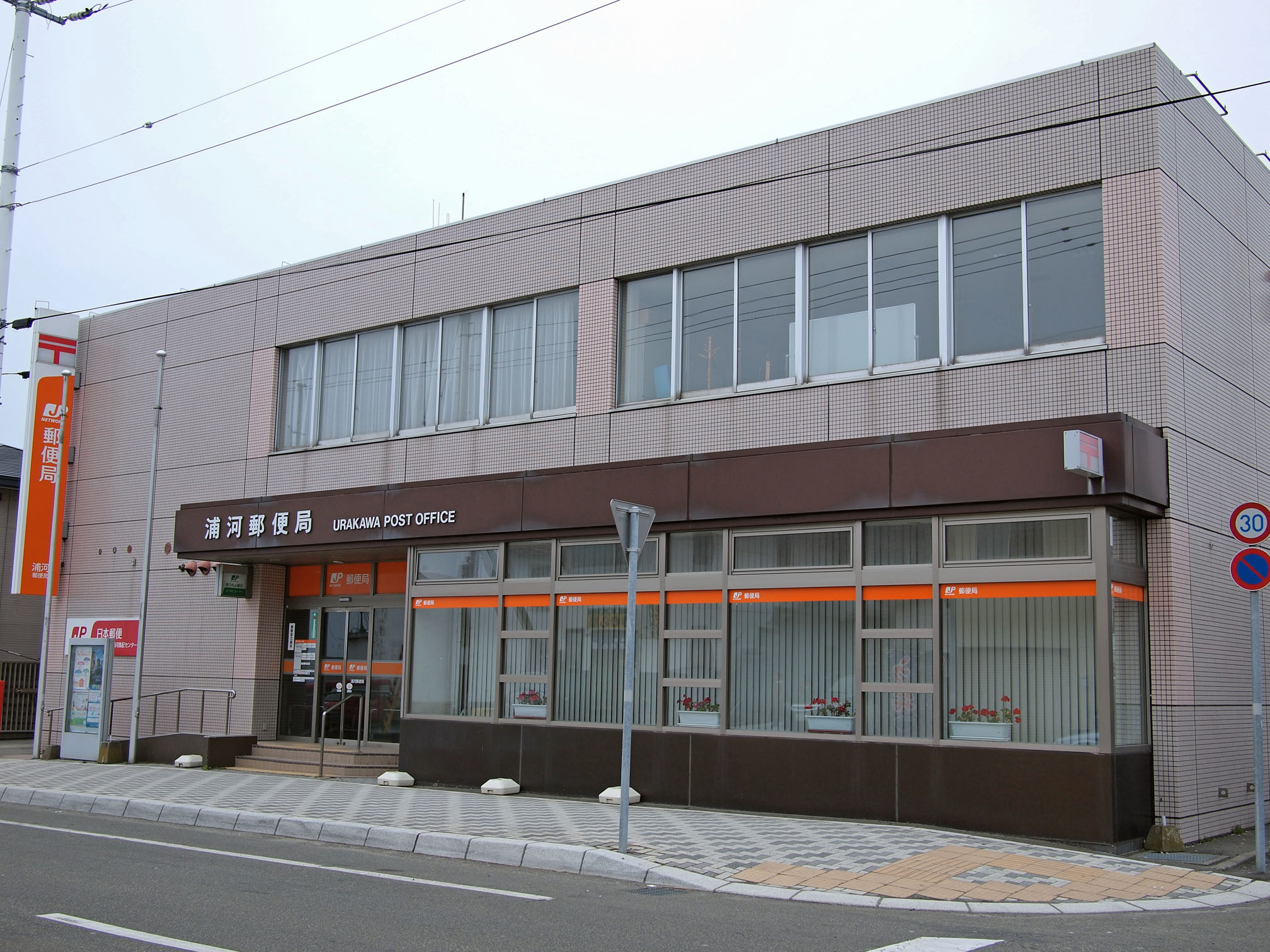 Urakawa post office, Urakawa, Hokkaido, Japan